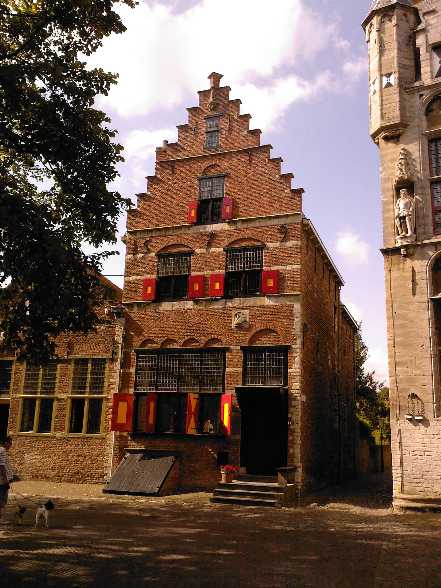 An old house in the center of Veere. Built in 1579